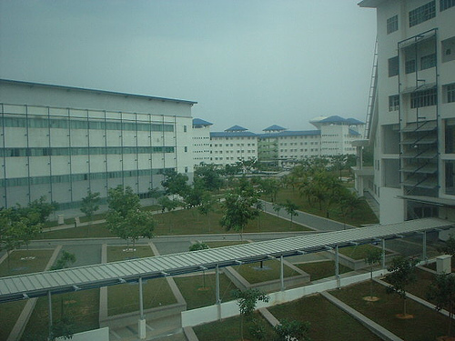 mmu